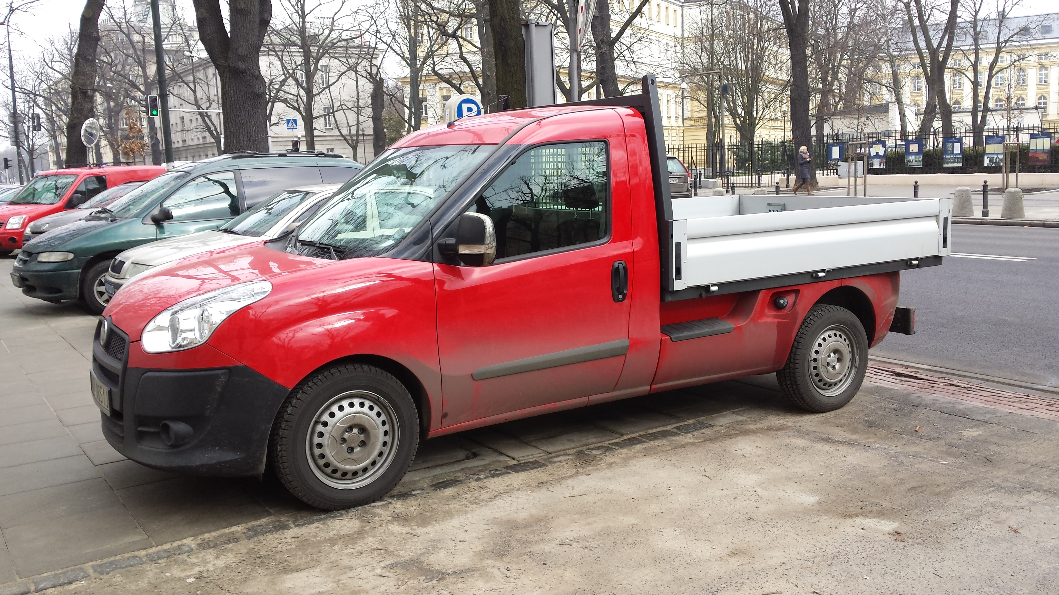 Fiat Doblo in Warsaw